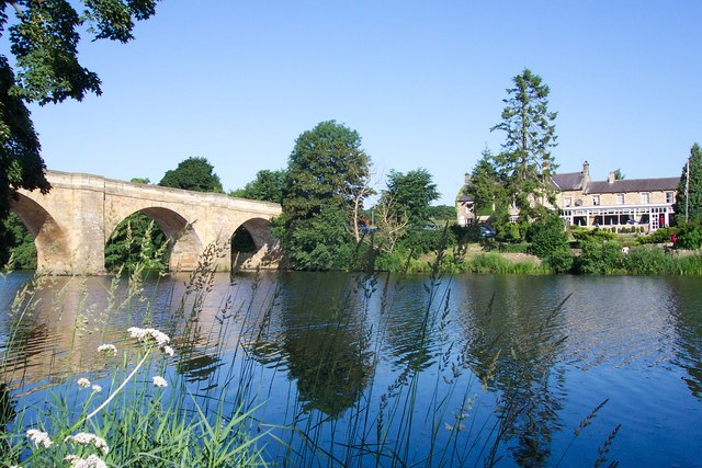 Chollerford Bridge Chollerford Bridge over the North Tyne with The George Hotel in the Background